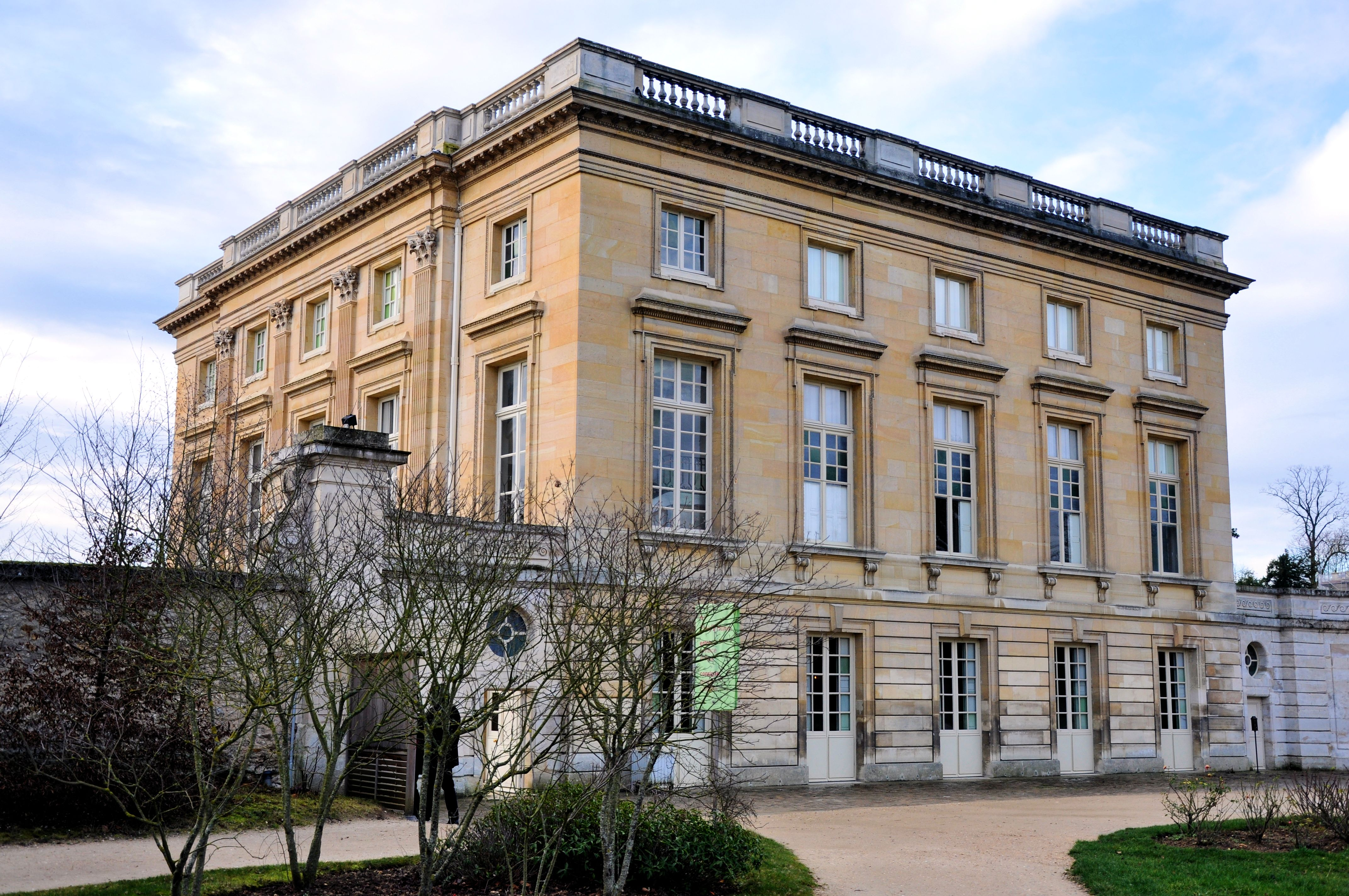 Petit Trianon - East and South façades